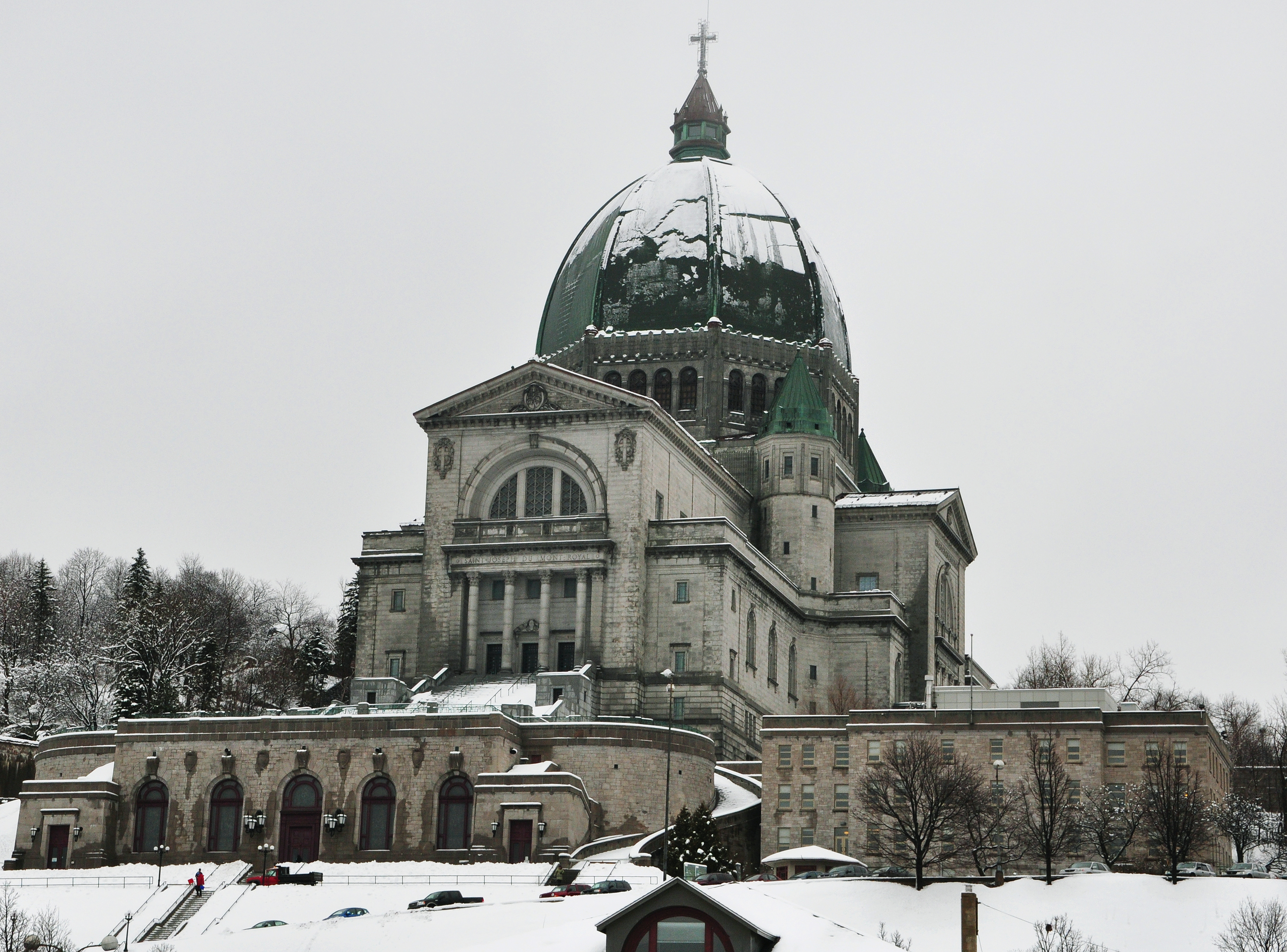 Saint Joseph's Oratory Montreal Quebec winter 2010